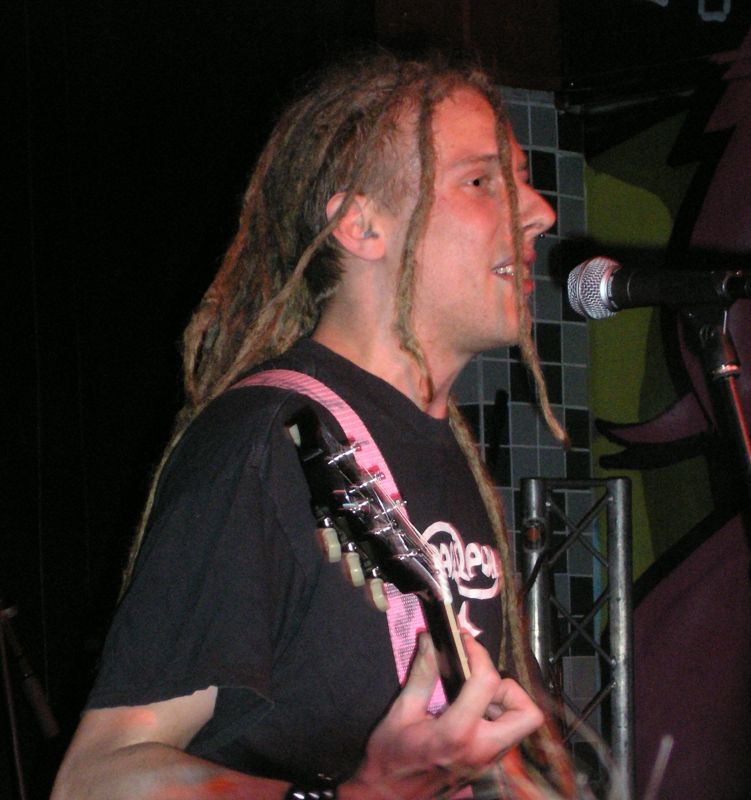 Tobbe in Varnagel playing at Hus1 in Jakobsberg